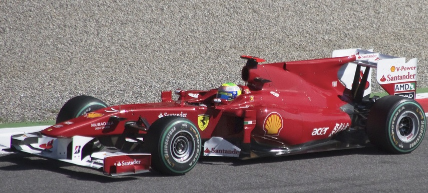 Felipe Massa driving for Scuderia Ferrari at the 2010 Italian Grand Prix.